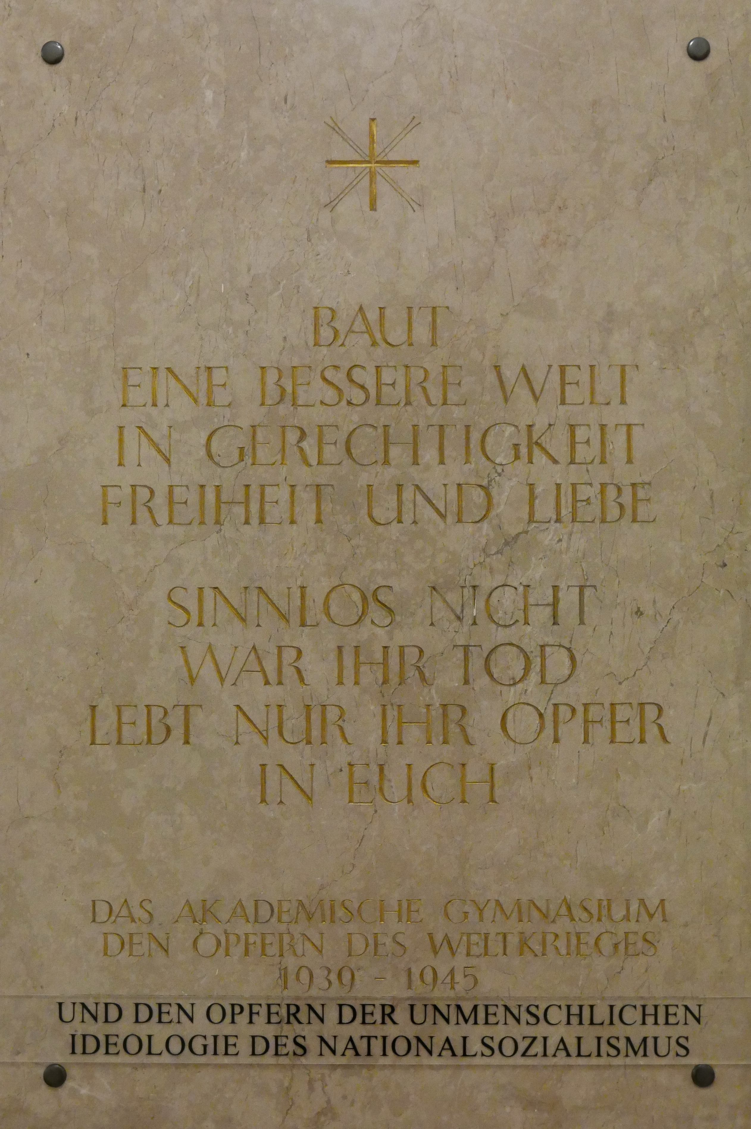 Akademisches Gymnasium Graz, commemorative plaque for the victims of World War II and National Socialism